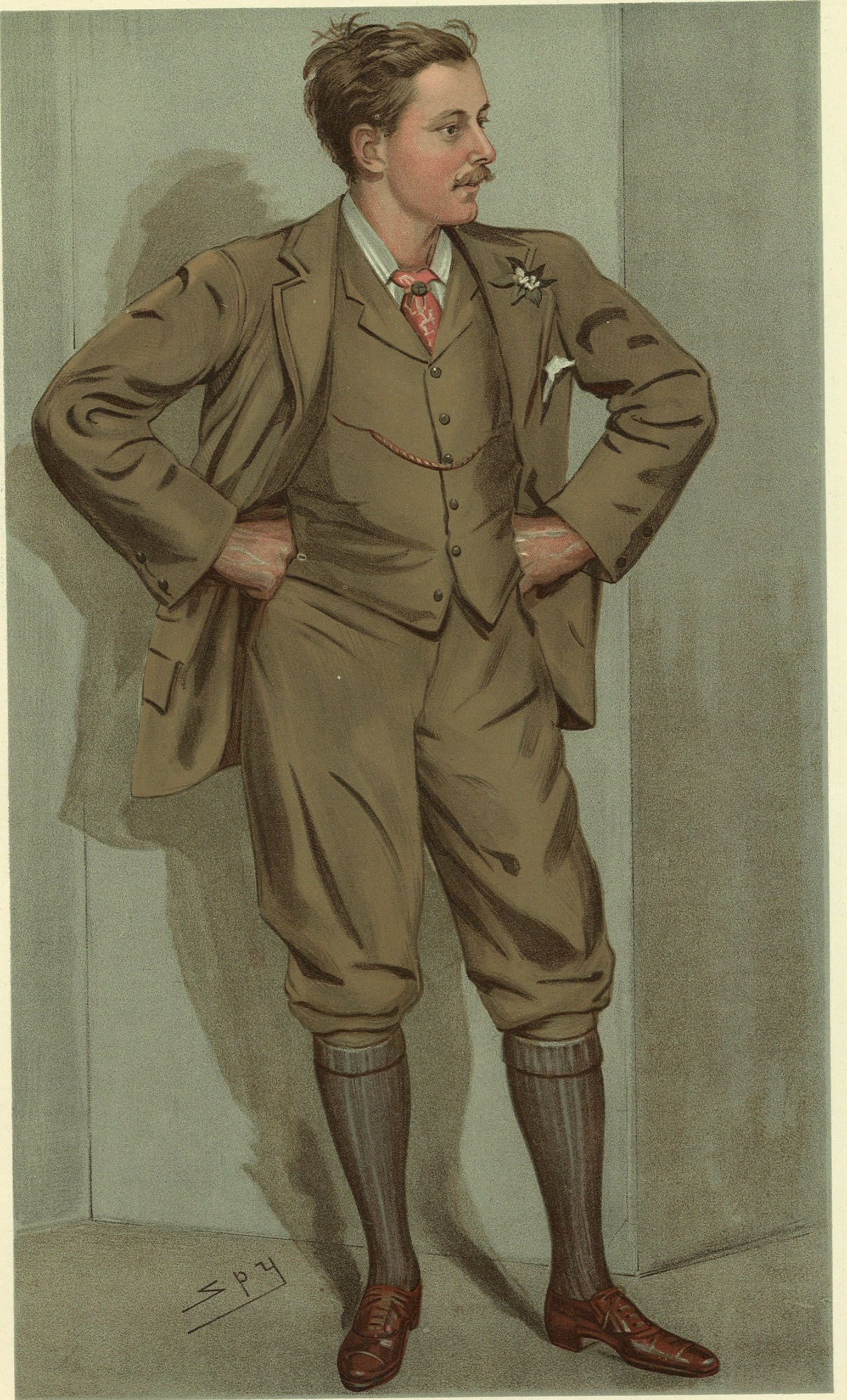 Caricature of The Hon JWE Douglas-Scott-Montagu MP. Caption read "A Southern Scott".